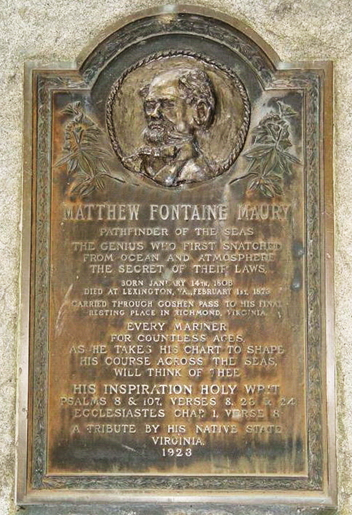 Memorial by Maury's native state of Virginia in 1923. This is only part of a large vertical granite stone in which the plaque is embedded showing a closeup of the image. It was here that Maury's coach carrying his body from Virginia Military Institute, Lexington Virginia, was paused as Maury's request before dying before continuing onward to Richmond Virginia's Hollywood cemetery to be placed between two US Presidents. This spot was Maury's favorite area of relaxation. When Maury died at his home at V.M.I. his body had lain in state at the V.M.I. library. His chest was covered with his medals given to him. At the head of his coffin was a large globe and the anchor, seen in a photo, donated by the state of Tennessee. The anchor was wrapped around the granite stone where this image is located. The Maury Monument in Richmond, Virginia reflects the globe at the head of his coffin showing people at sea, and in a fierce storm, struggling to survive because both was M F Maury himself spent his life's work struggling for. Maury, born in Virginia, had been a Tennessee farm boy from age 5-19 and then at sea by the age of 19 years. for a full image at Goshen Pass. Above is only a partial image of the Goshen Pass Memorial. I have noticed too, in old books, that the circular image of Maury's face has been changed. The original is far better like a real person's face.